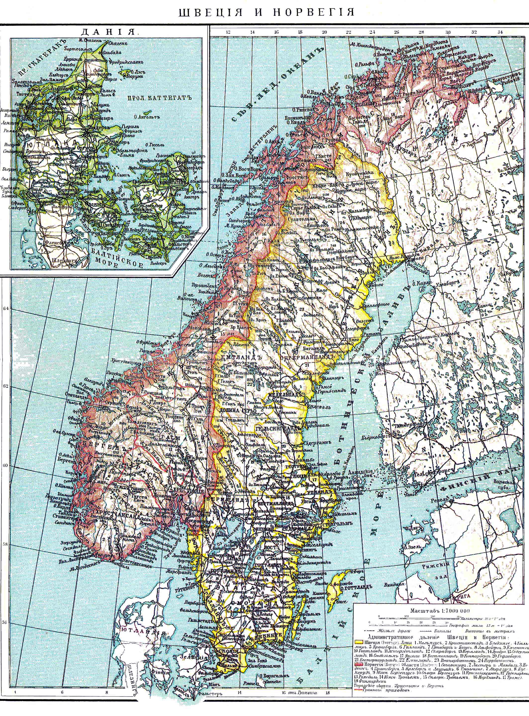 Illustration from Brockhaus and Efron Encyclopedic Dictionary (1890—1907)